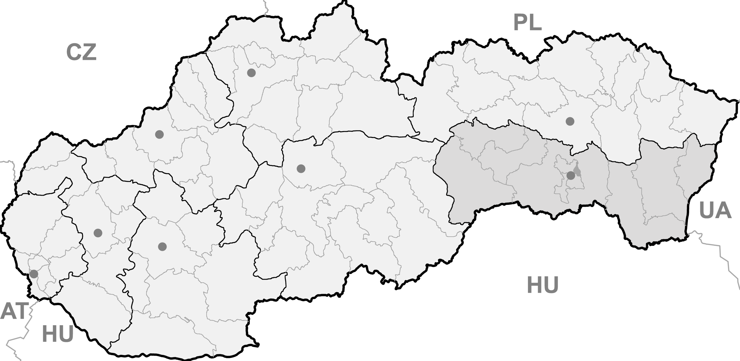 Map of Slovakia, Kosice III district and Kosice region highlighted